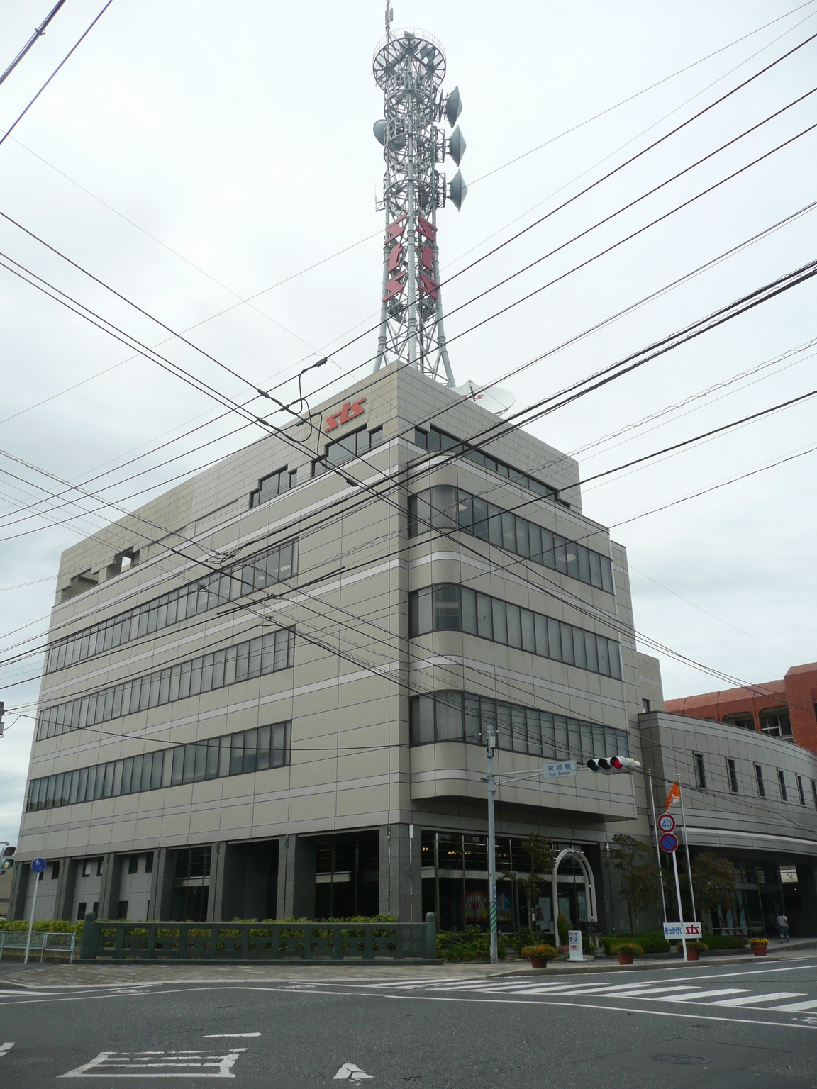 Saga TV (JOSH-TV, FNN/FNS - Saga, Japan)